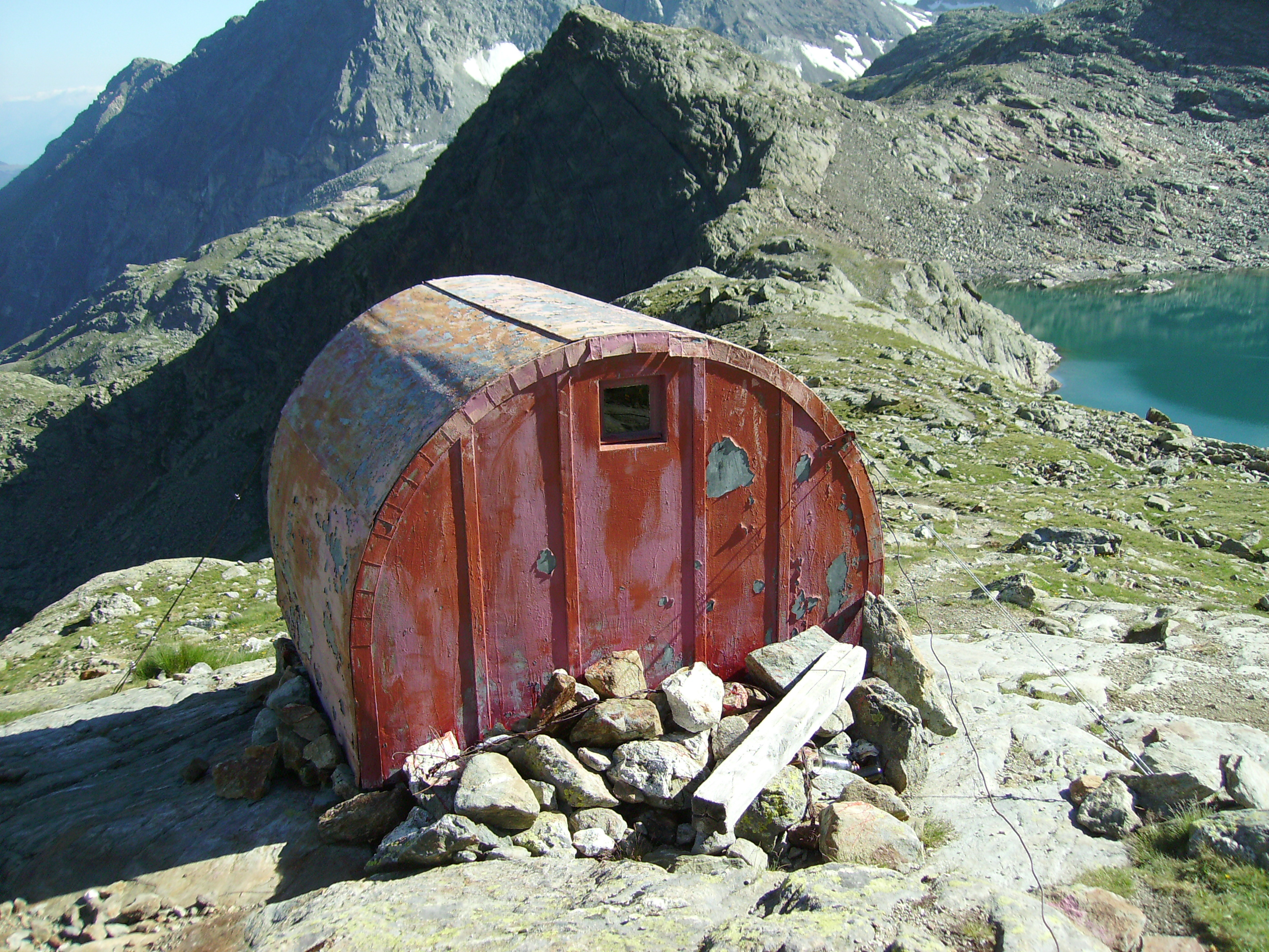 Bivouac Duccio Manenti - Valtournenche - Aosta Valley